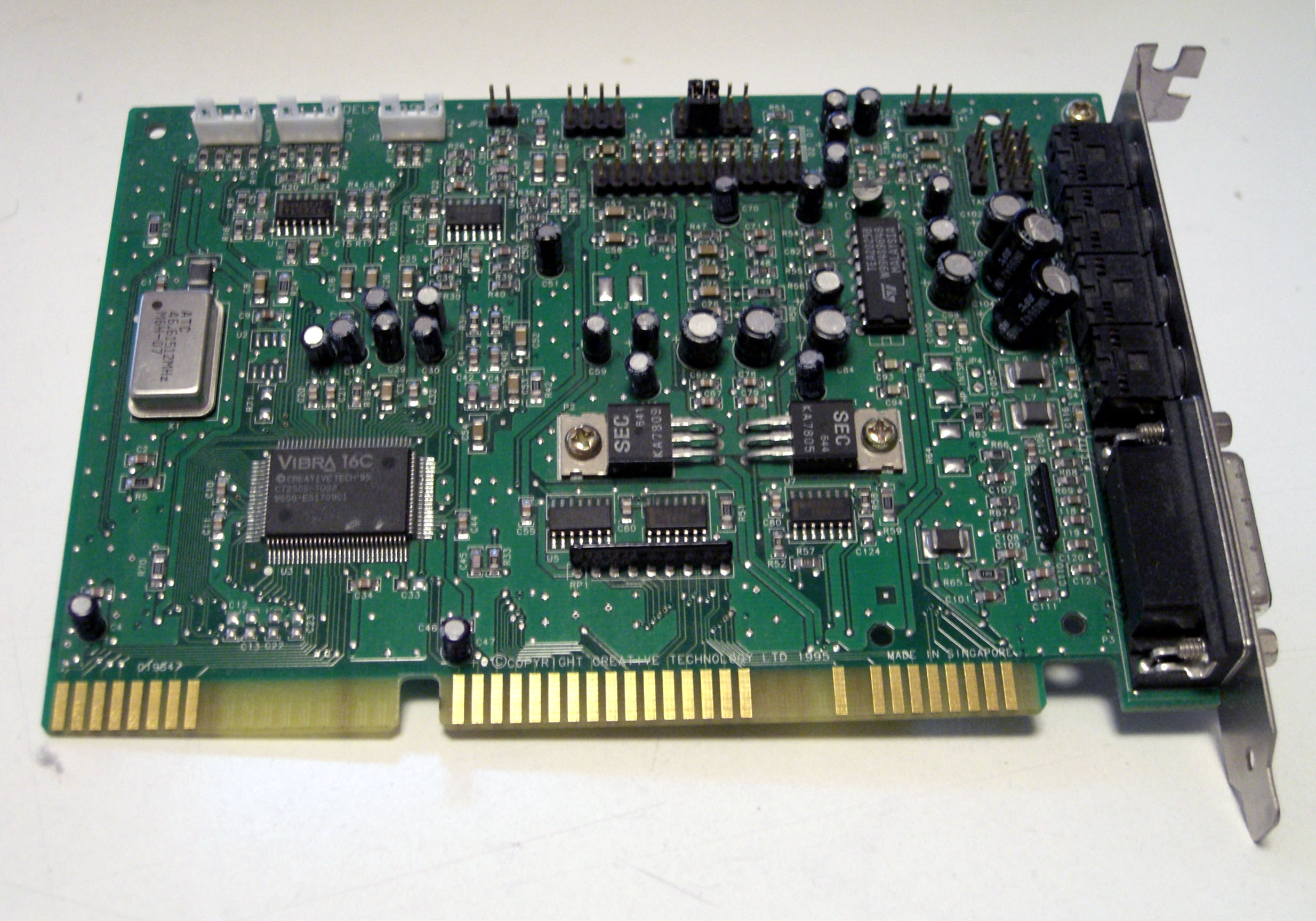 Creative Sound Blaster 16 Audio Card (1995).